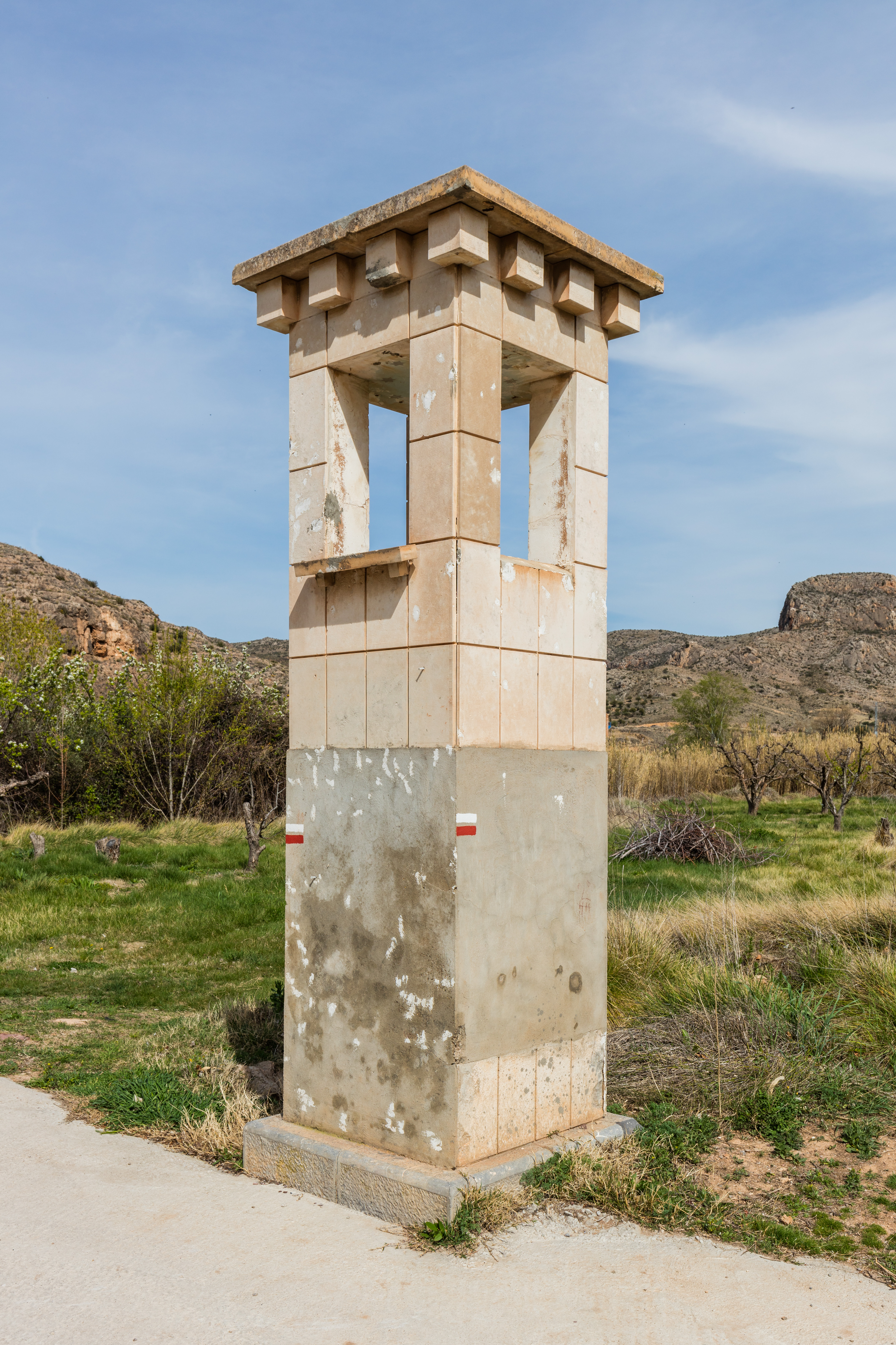 Wayside cross of St Antón, Morata de Jalón, Zaragoza, Spain